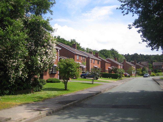 Loggerheads: Chestnut Road Detached houses in the more recent housing estate in Chestnut Road.